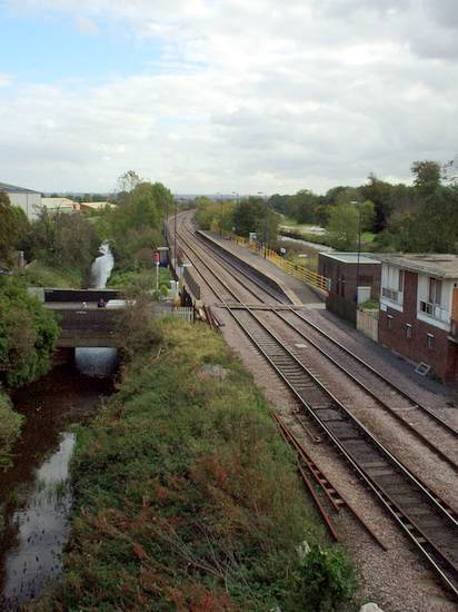 Crowle railway station